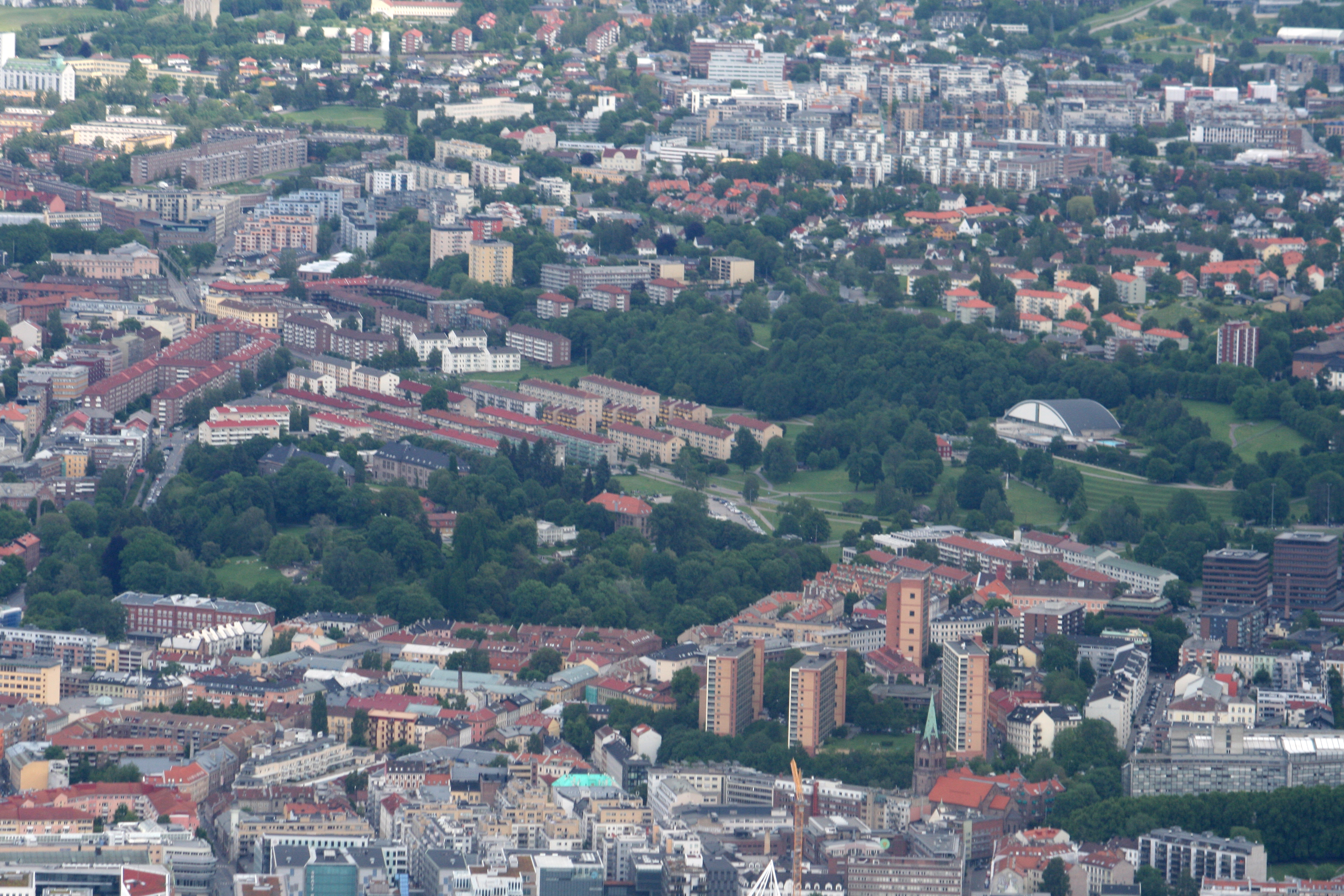 Aerial photograph from June 14th, 2015.